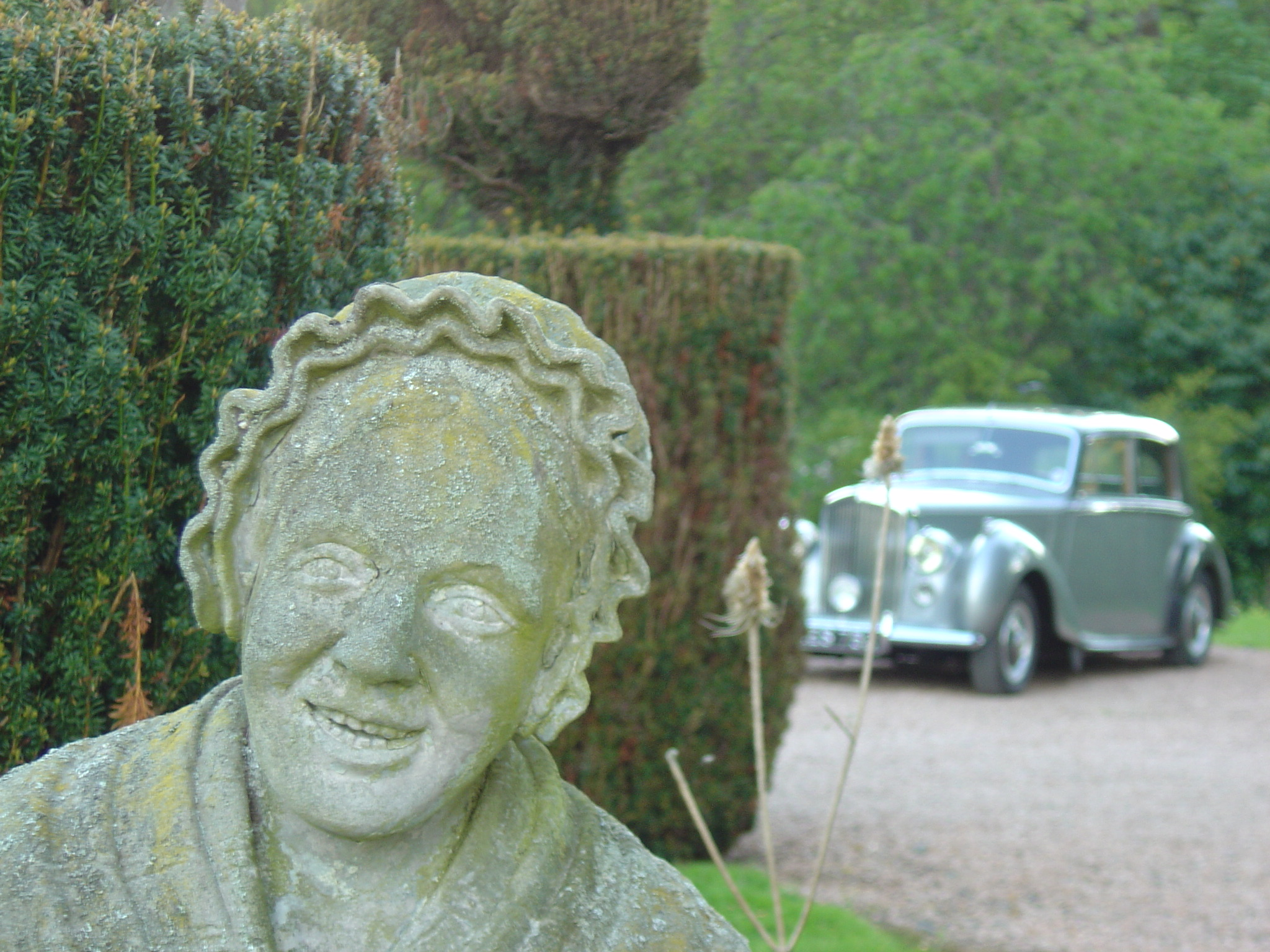 photo of Meg with local baronet's carriage behind, photo by R, de Salis, May 2004Rodolph 20:28, 27 February 2007 (UTC)